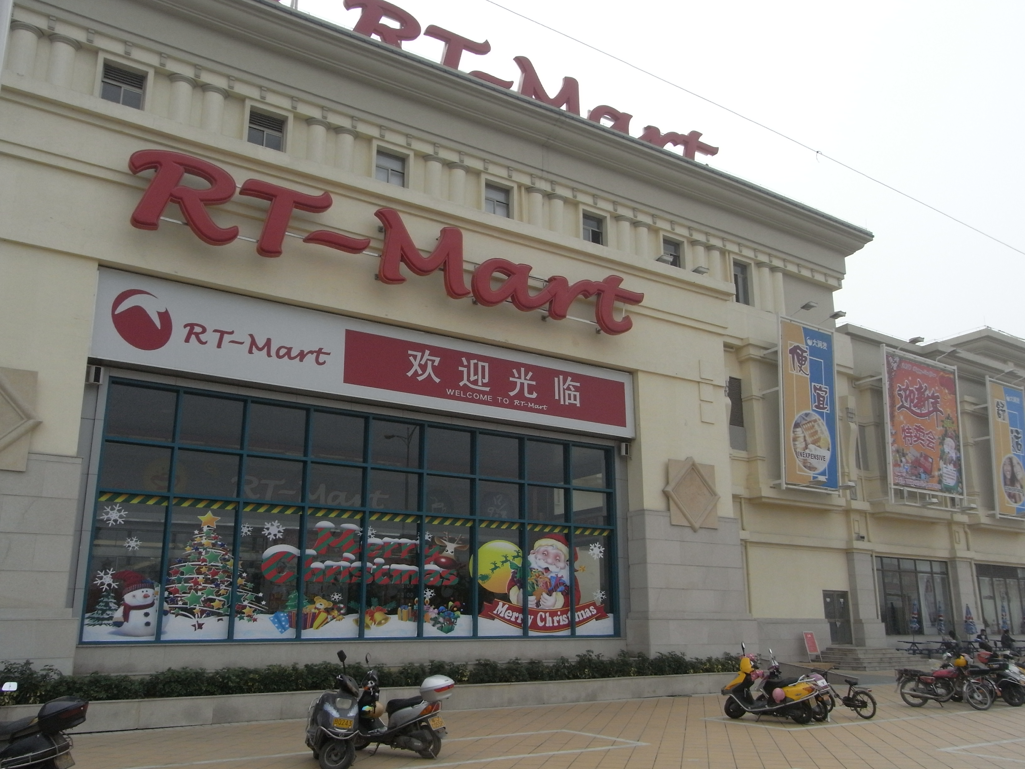 廣東省江門市新會碧桂園大潤發商場